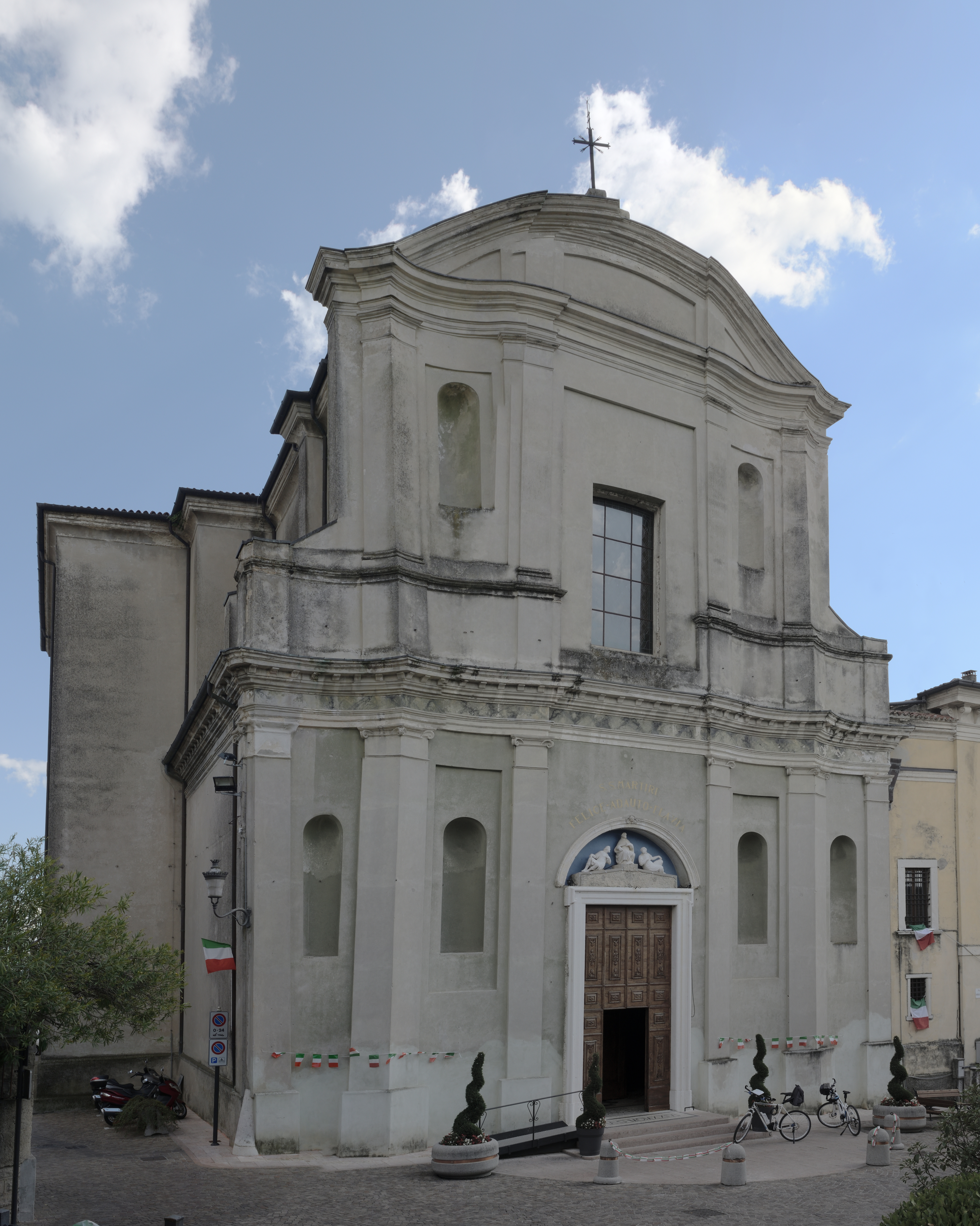 Main facade of the parish church of San Felice del Benaco on lake Garda.